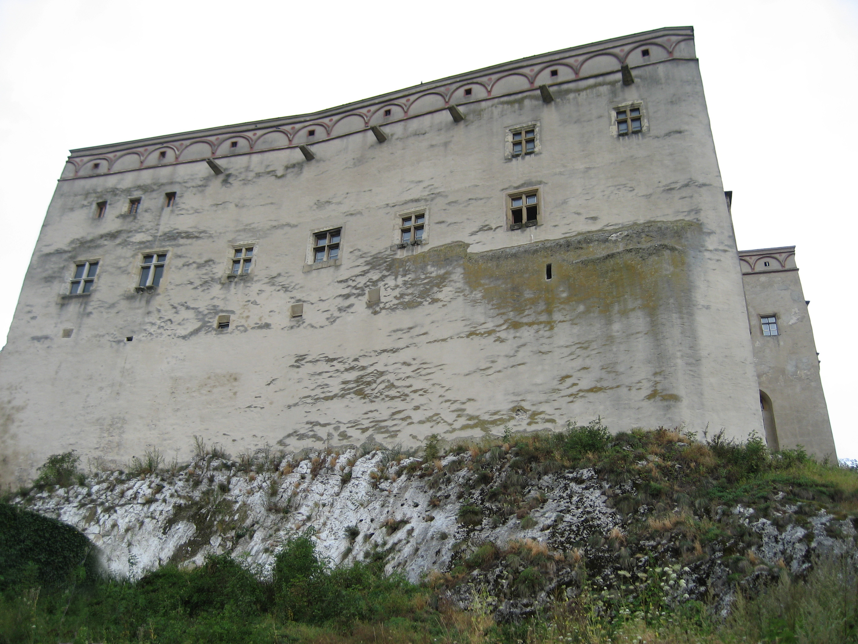 The facade of Barbara's palace in Trenčín Castle, Slovakia.